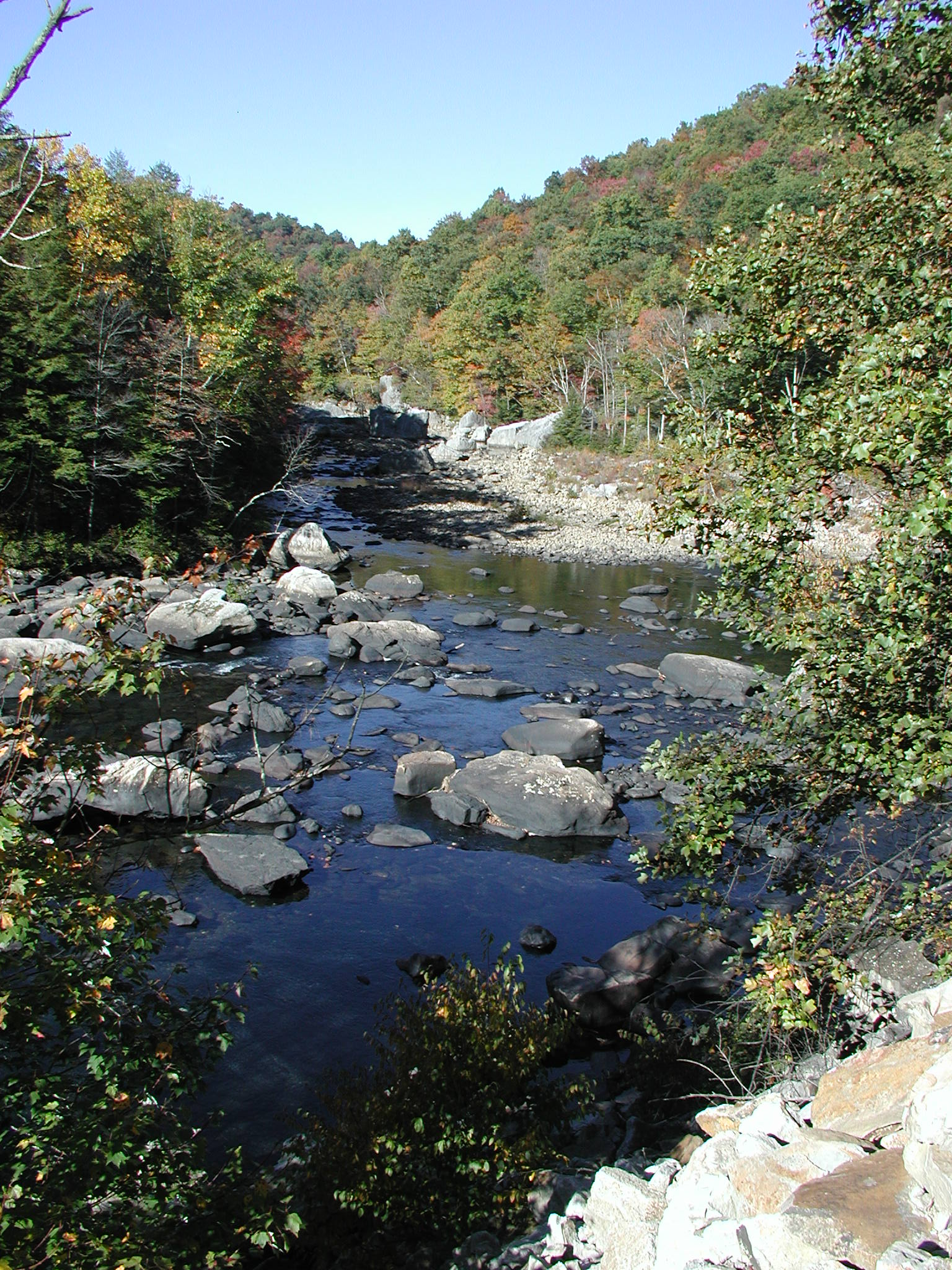 Mouth of the Buckhannon River as it issues into the Tygart Valley River in Barbour County, West Virginia